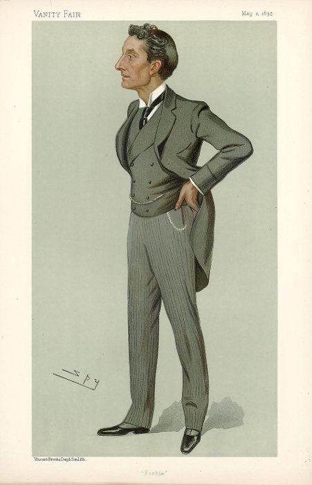 Men of the Day No.0619: Caricature of Mr J Forbes-Robertson. Caption reads: "Forbie"